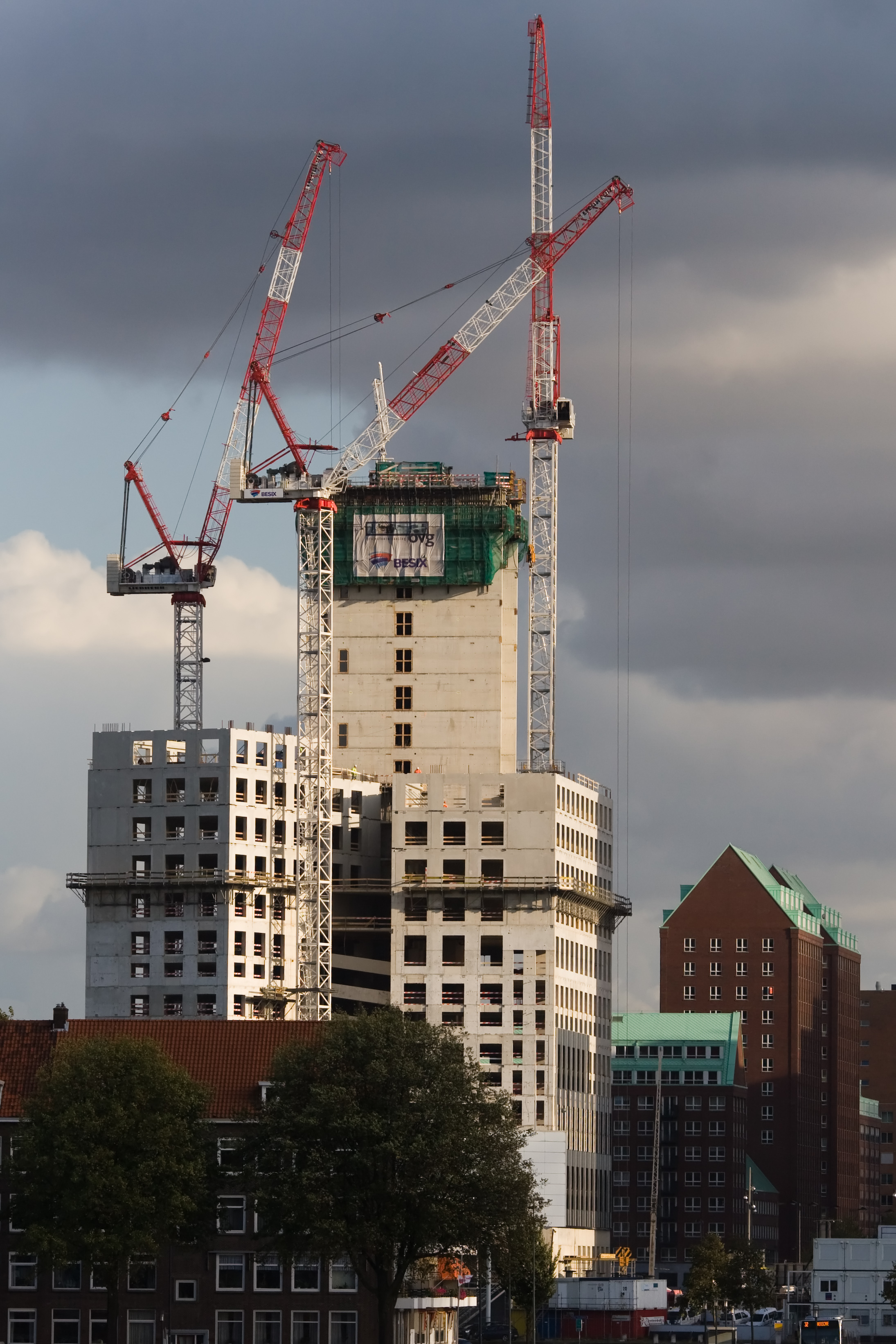 The Maastoren being built, will be 165m high.